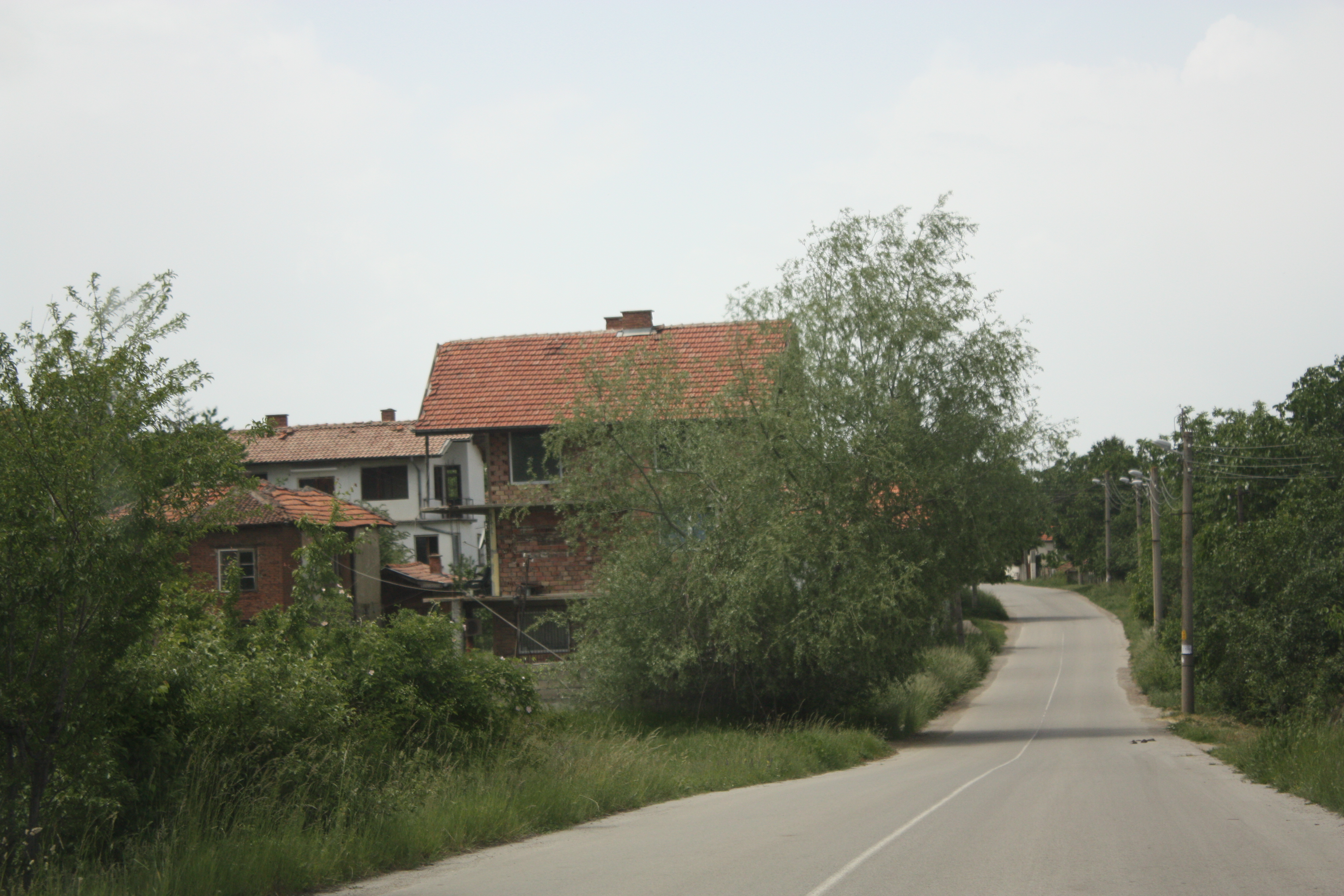 Entrance road to in Kondofrey, Bulgaria